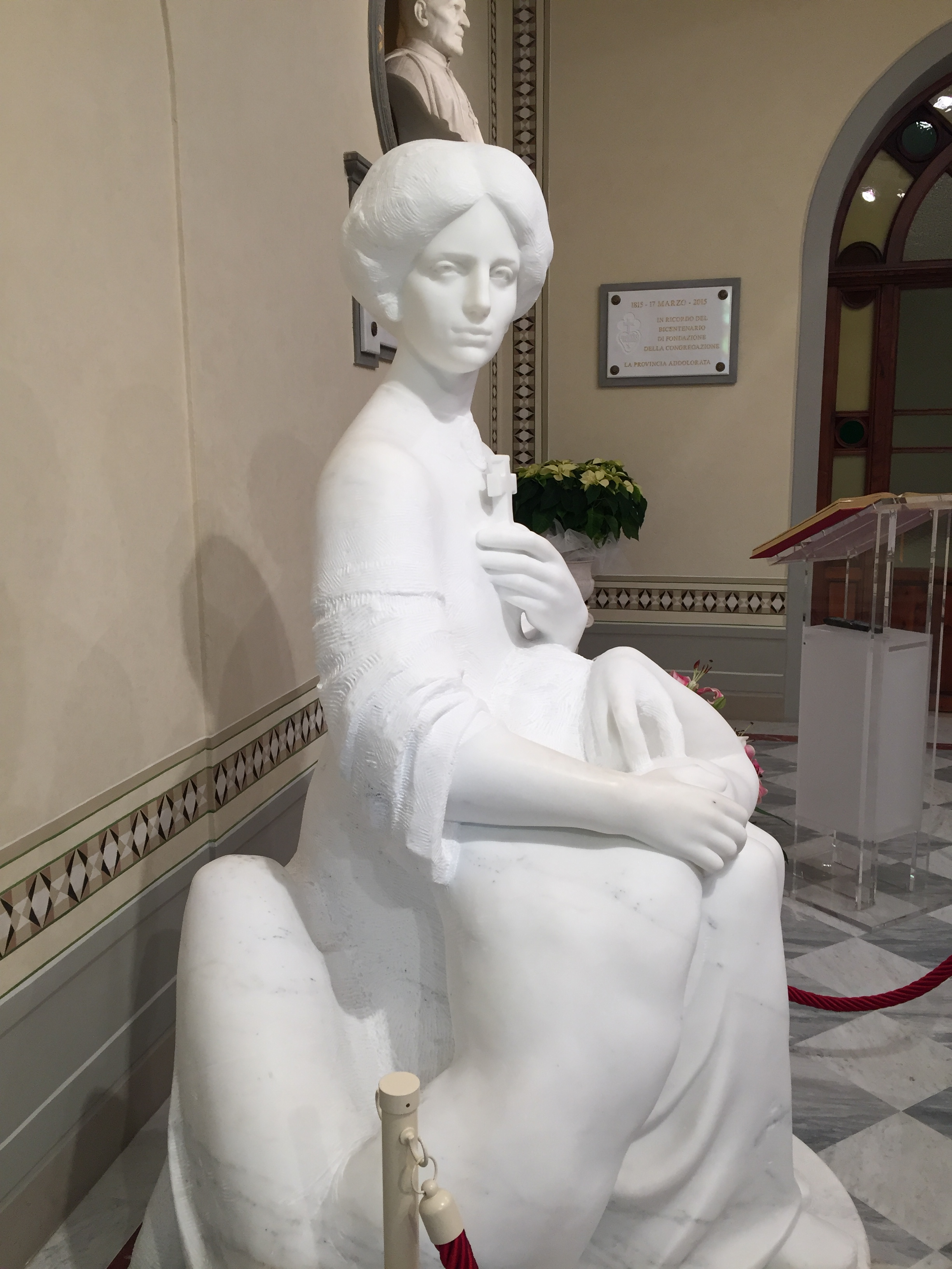 Casa Madre Suore Passioniste of San Paolo della Croce. Author Vighen Avets.